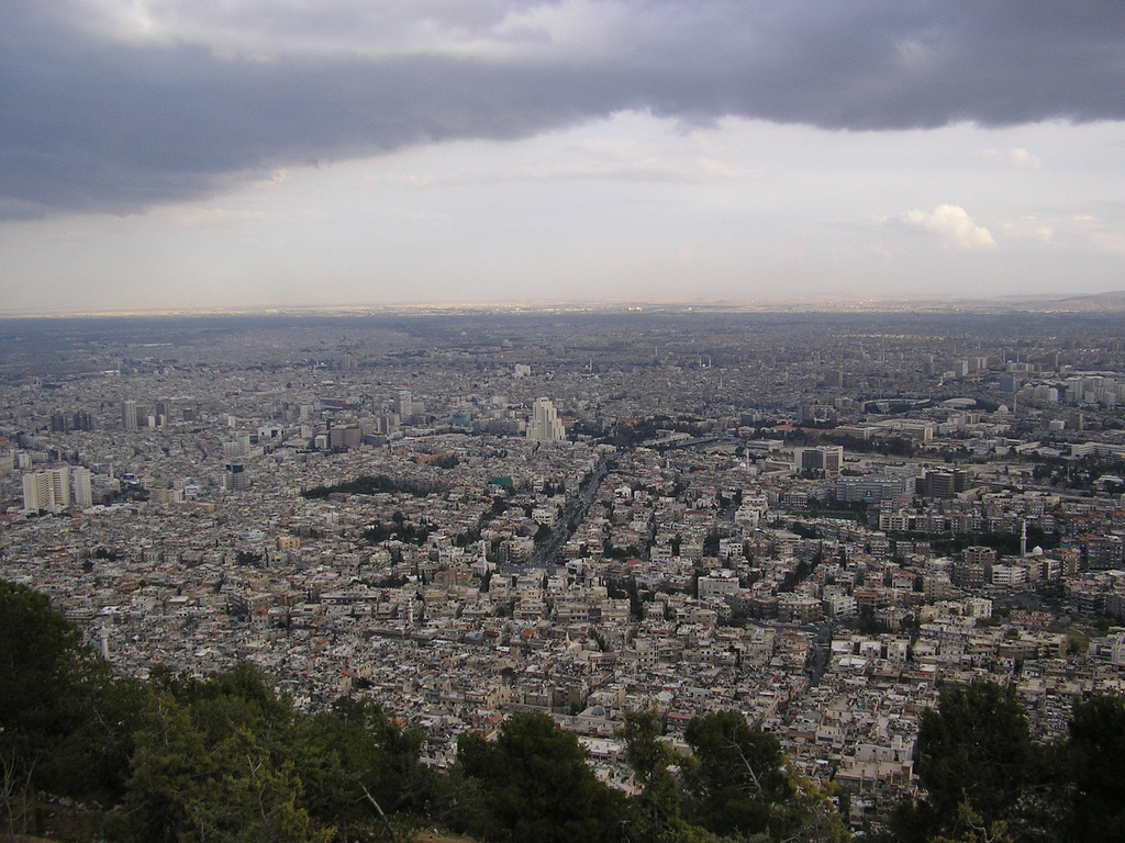 Panorama of Beirut during the 2006 Israel-Lebanon crisis.